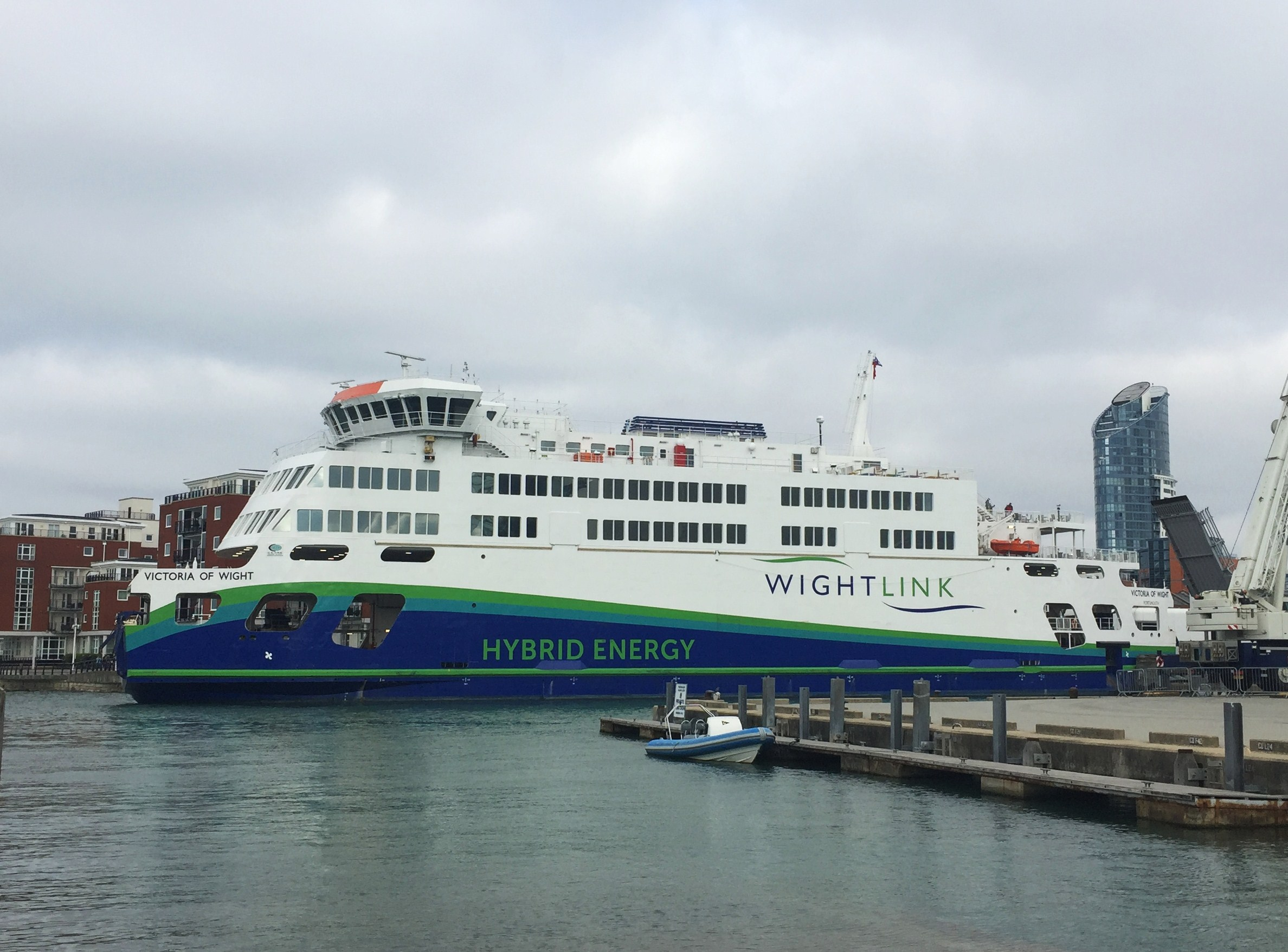 Wightlink car ferry MV Victoria of Wight docked at the Portsmouth ferry terminal.